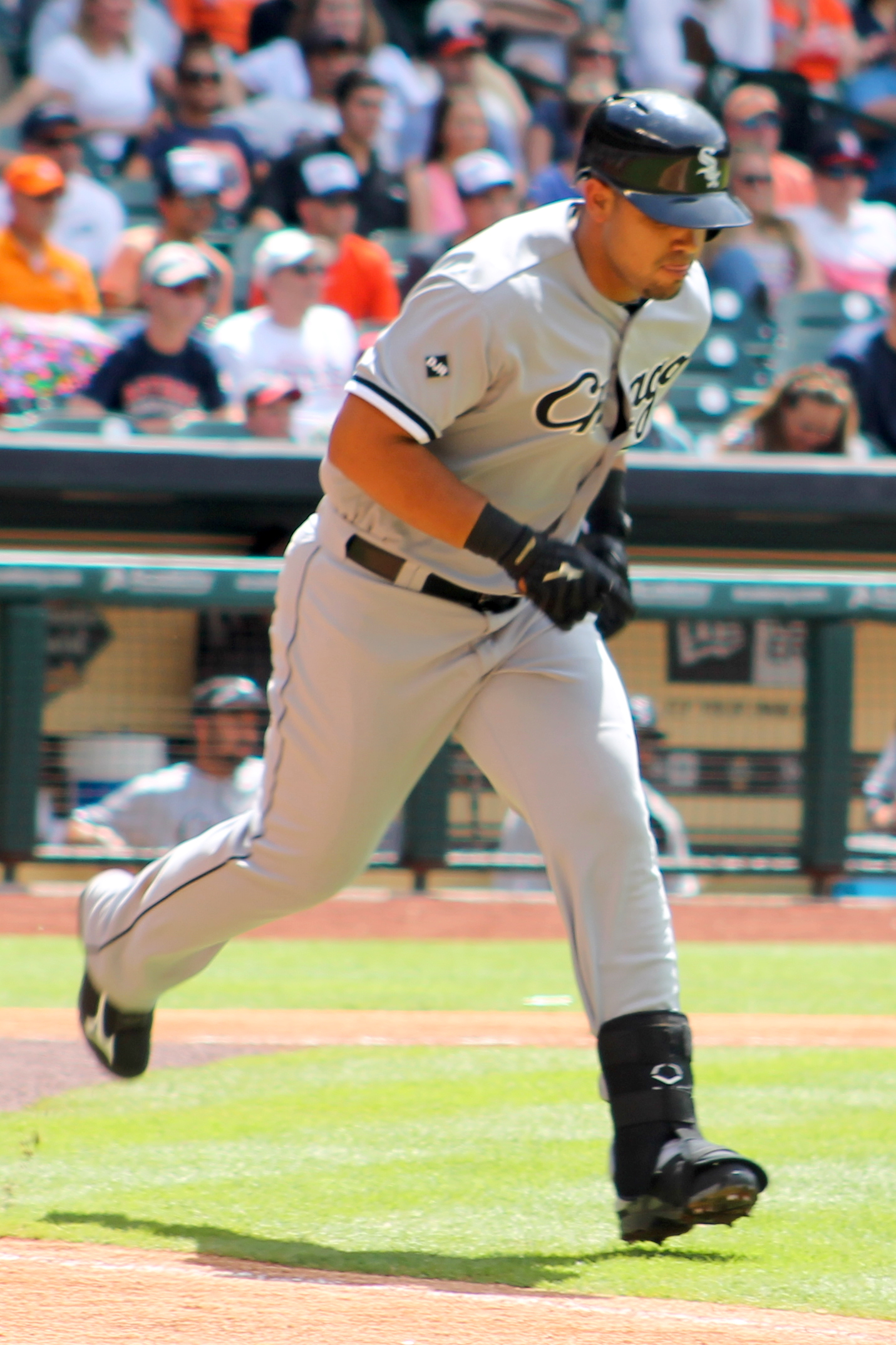 Chicago White Sox player José Abreu during a May 2014 game in Houston.